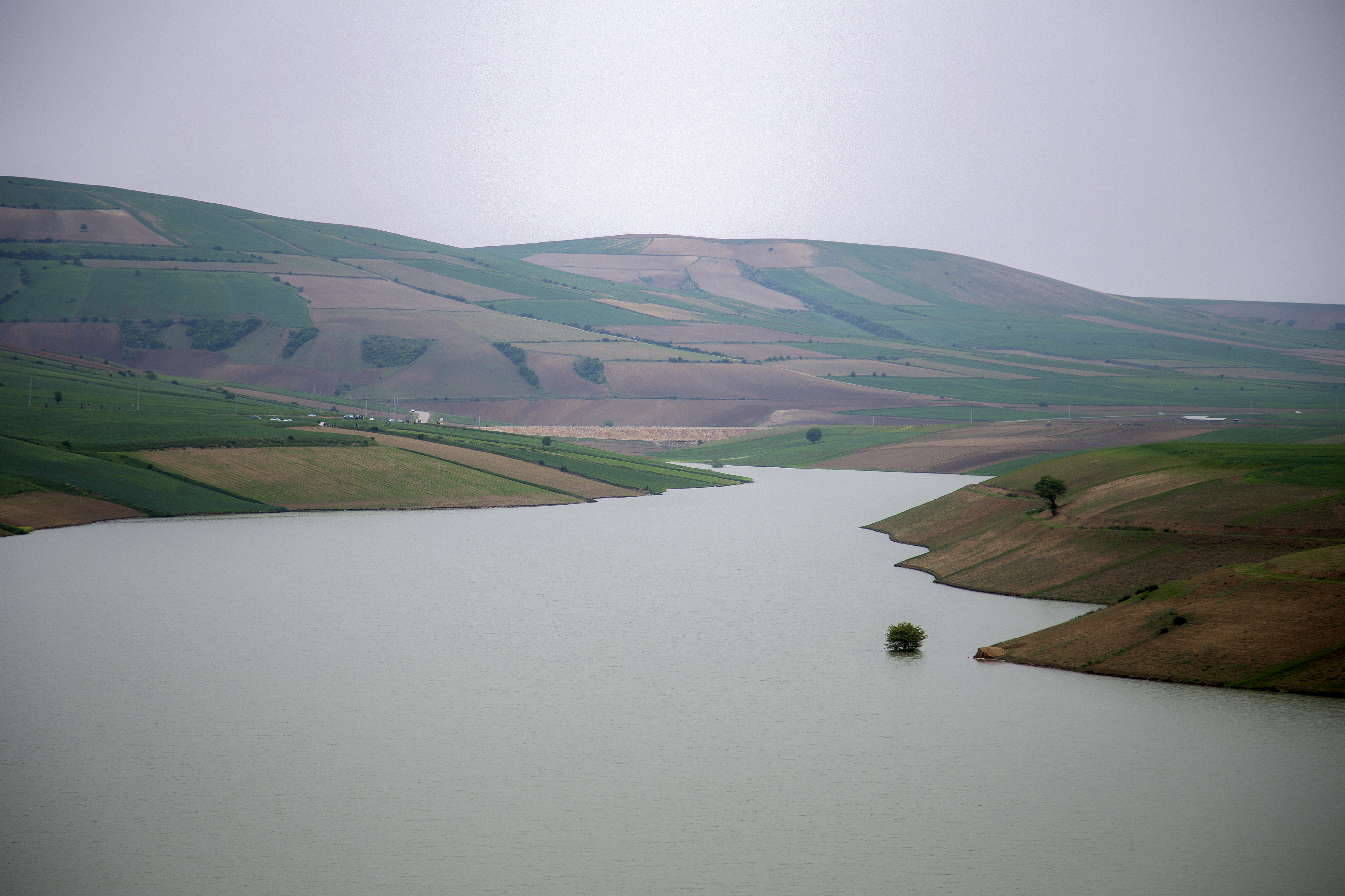 Reservoir near Hoseynabad-e Kalpu in Meyami County, Iran – Hoseynabad-e Kalpu is a village in Rezvan Rural District, Kalpush District, Meyami County, Semnan Province, Iran. At the 2006 census, its population was 3,242, in 734 families.